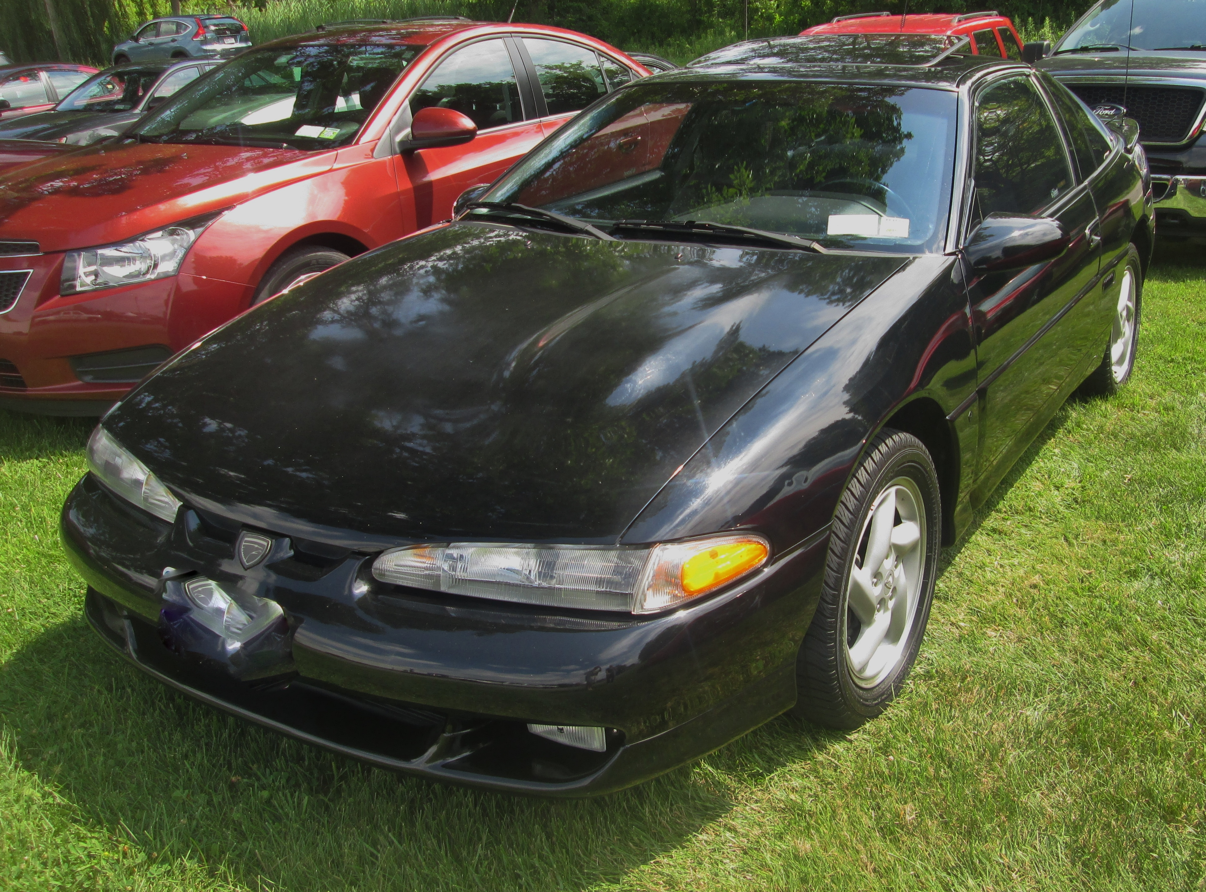 1992-1994 Eagle Talon TSi